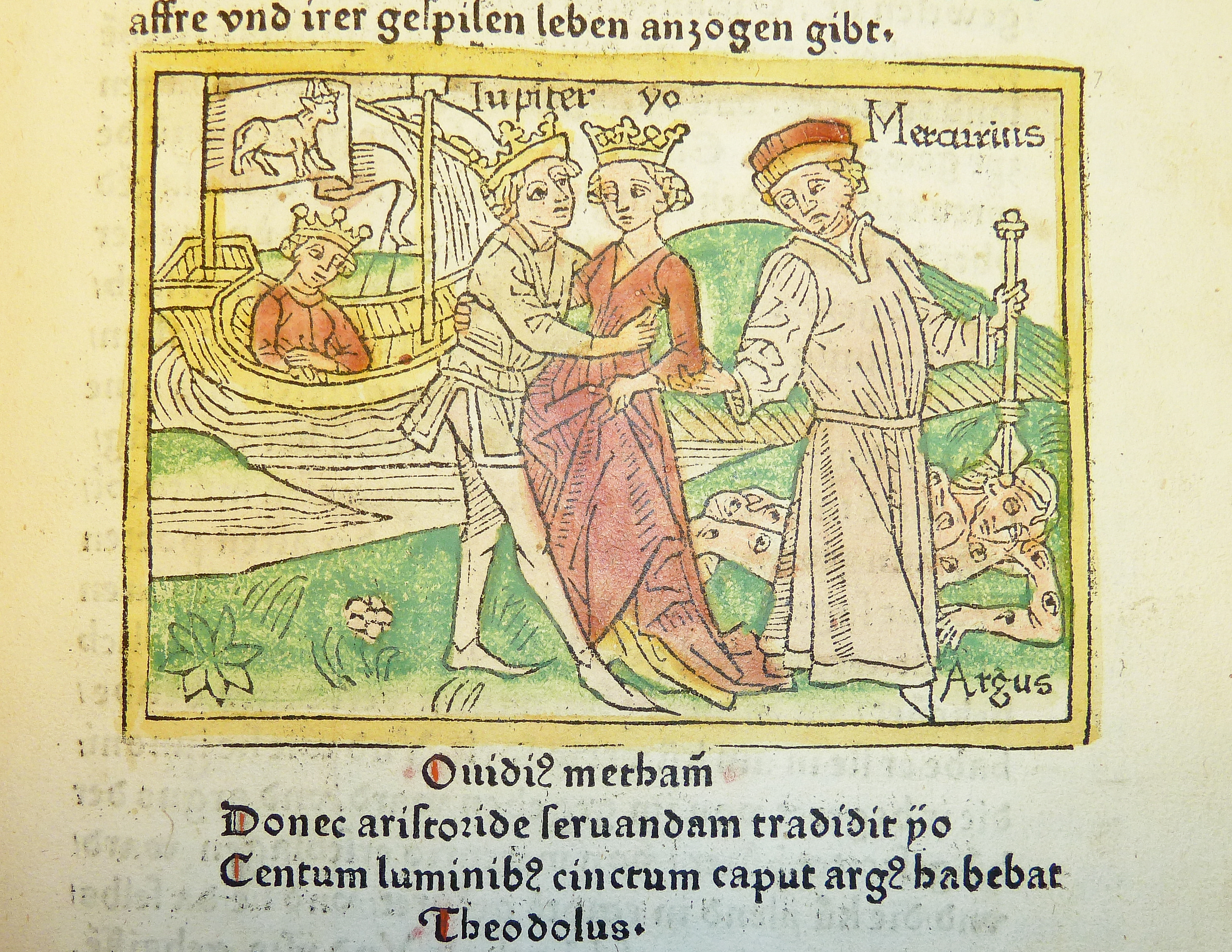 Woodcut illustration (leaf [c]1r, f. [xi]) of Jupiter and Io with Mercury and a drowsing Argus, hand-colored in red, green, yellow and black, from an incunable German translation by Heinrich Steinhöwel of Giovanni Boccaccio's De mulieribus claris, printed by Johannes Zainer at Ulm ca. 1474 (cf. ISTC ib00720000). One of 76 woodcut illustrations (1 on leaf [e]8v dated 1473), each 80 x 110 mm., depicting scenes from the life of the women chronicled (for a full list of subjects, cf. W.L. Schreiber, Handbuch der Holz- und Metallschnitte des XV. Jahrhunderts (Nendeln: Kraus Reprints, 1969), no. 3506). "Pour la première moitie le nom se trouve inscrit à côte de la tête de chaque femme, pour le reste il es ajouté entre les deux réglettes. Il n'y en a que trois, qui n'ont qu'un seul trait carré."--Schreiber. Established form: Zainer, Johannes, ‡d d. 1541?. Established form: Jupiter (Roman deity) Established form: Mercury (Roman deity) Established form: Io (Greek mythology) Established form: Argos (Greek mythology) Penn Libraries call number: Inc B-720 All images from this book Penn Libraries catalog record